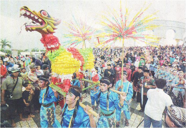 Warak Ngendhog is one of an icon on Dhugdhèran Carnival, held on Semarang, Central Java, Indonesia